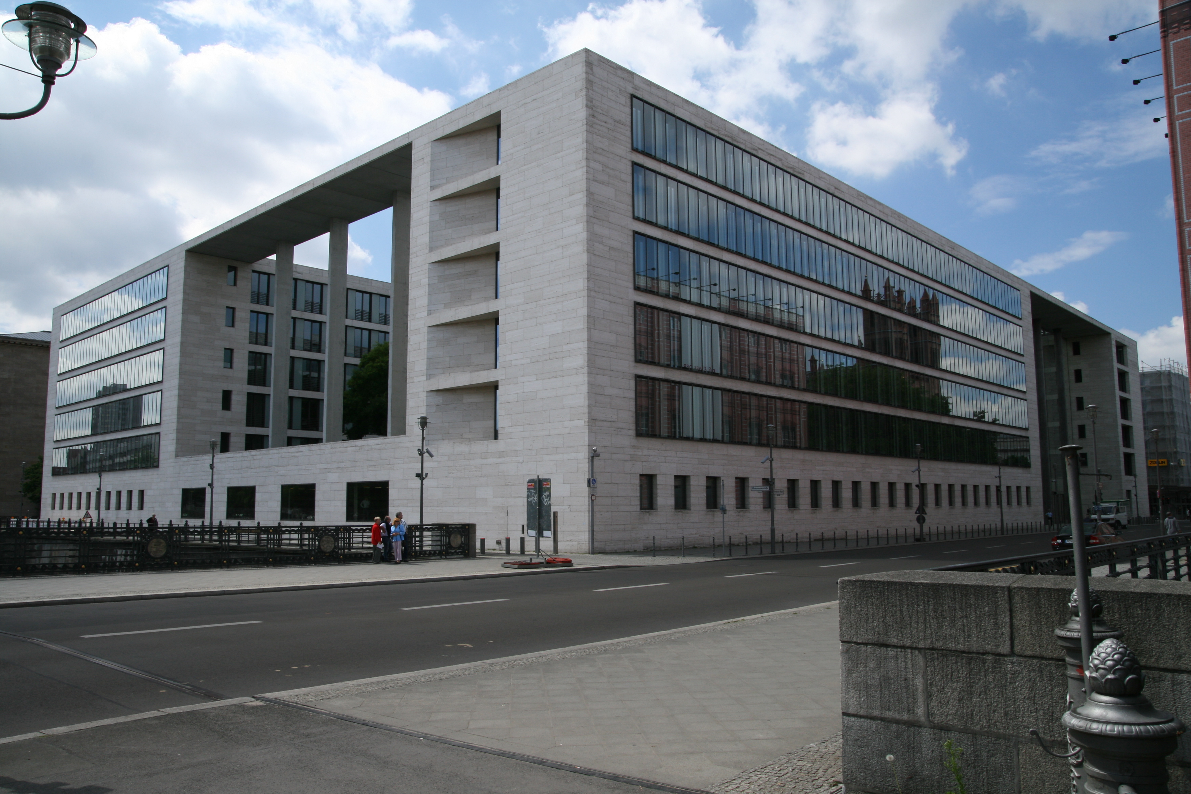 The Berlin Foreign Office building, photographed from Französische Straße.